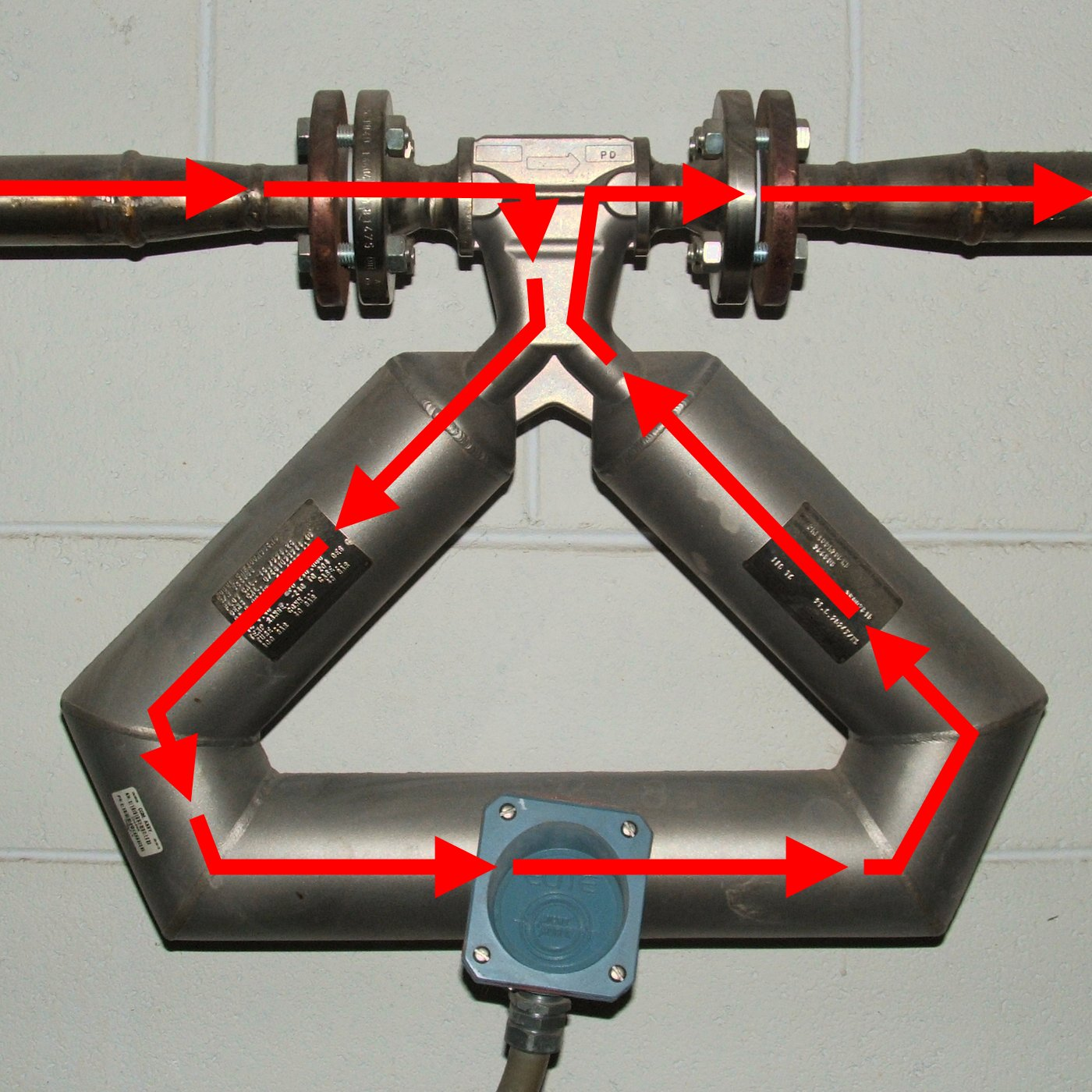 Mass flow meter with arrows